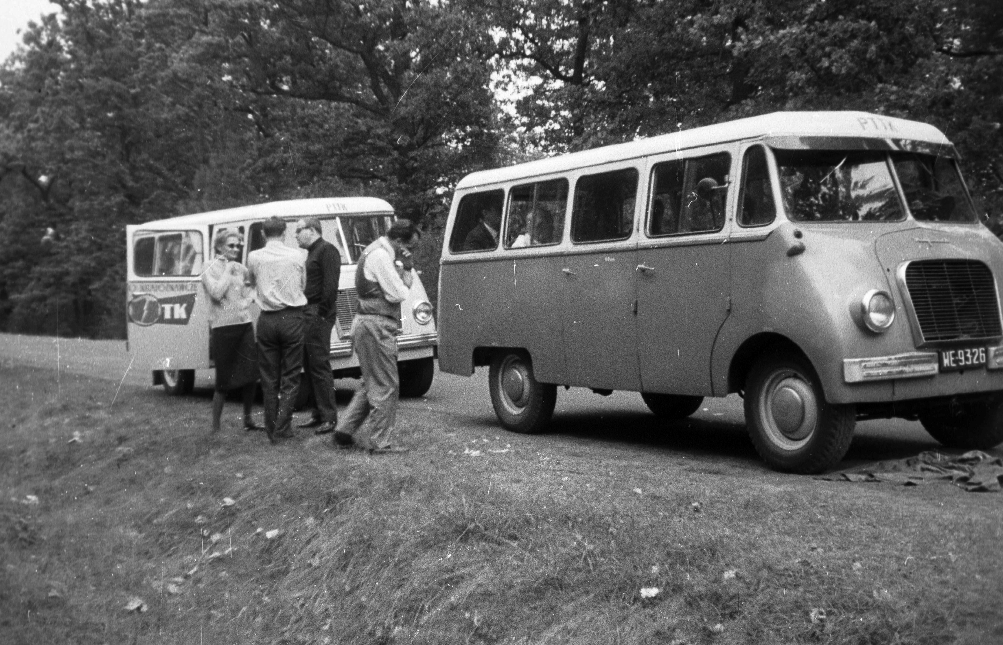 Location: Poland Tags: Nysa-brand, minivan, Polish brand